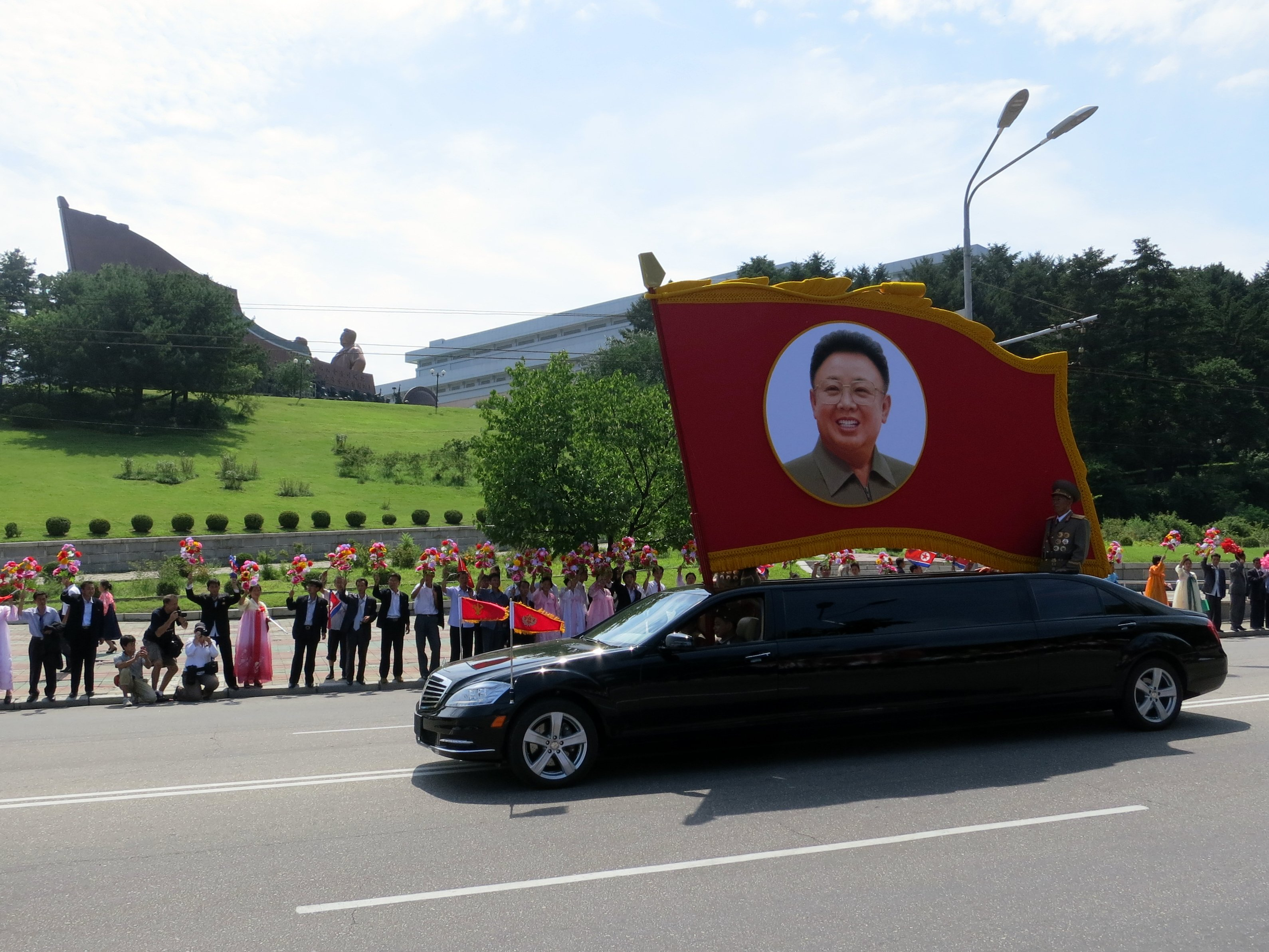 North Korea Victory Day 185